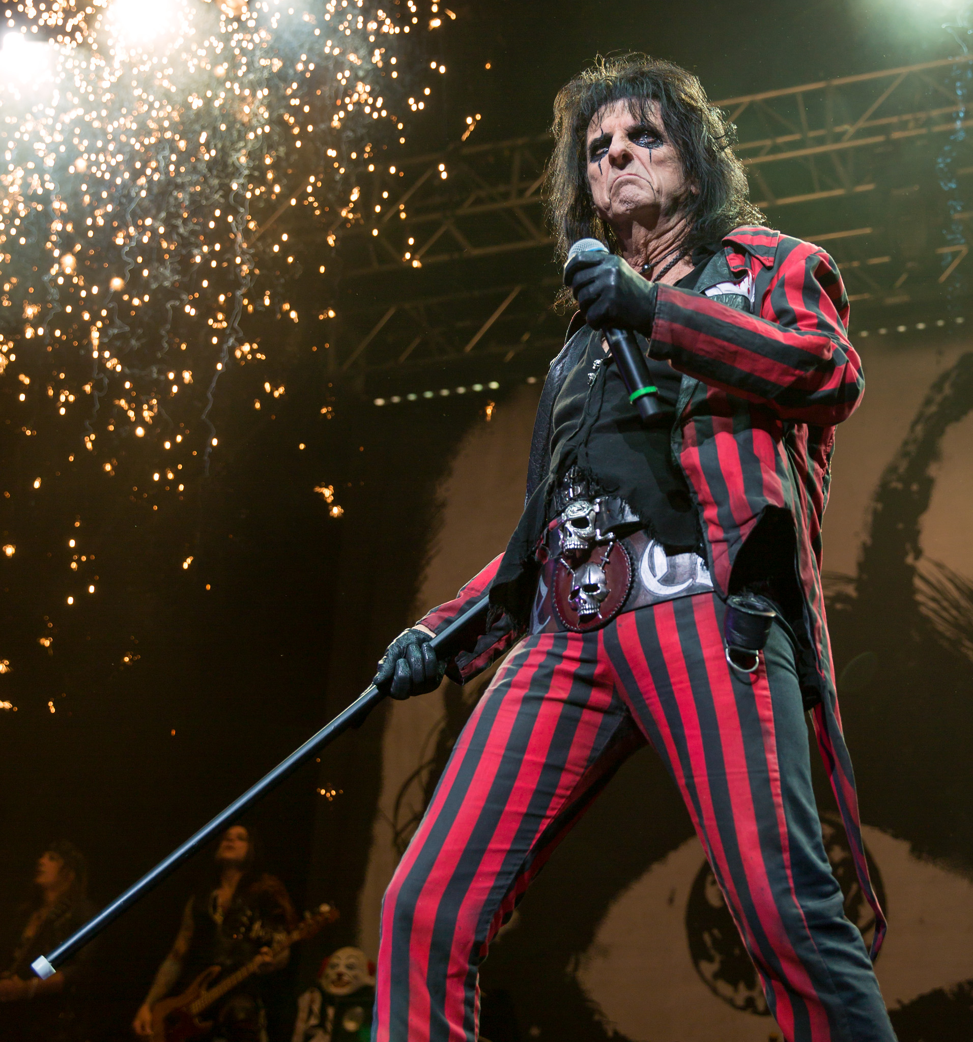 Alice Cooper performing in San Antonio, Texas 2015-02-11.